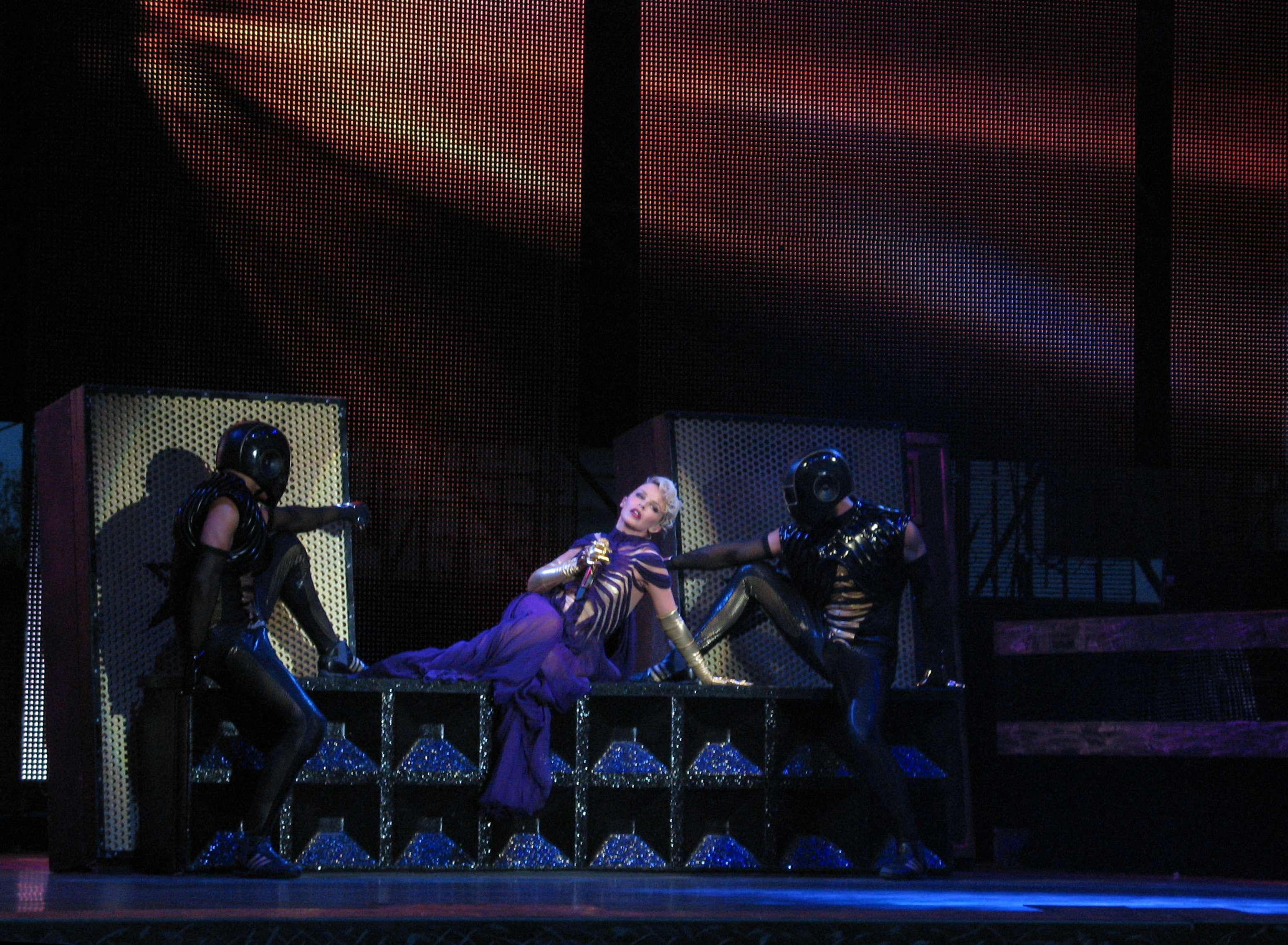 Opening scene of Kylie Minogue's concert at Lokomotiv Stadium, Sofia, Bulgaria. Part of KYLIEX2008 tour.